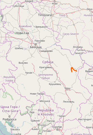 OpenStreetMap of State Road 37 in Serbia.